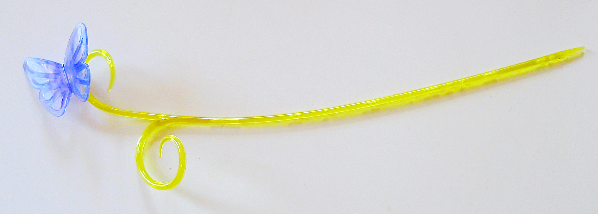 Plastic flower